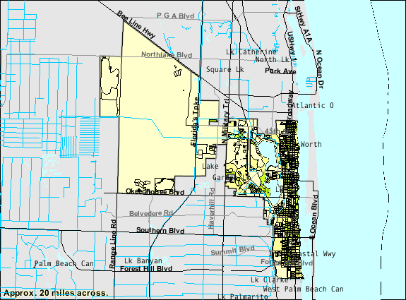 map of West Palm Beach, Florida showing city limits